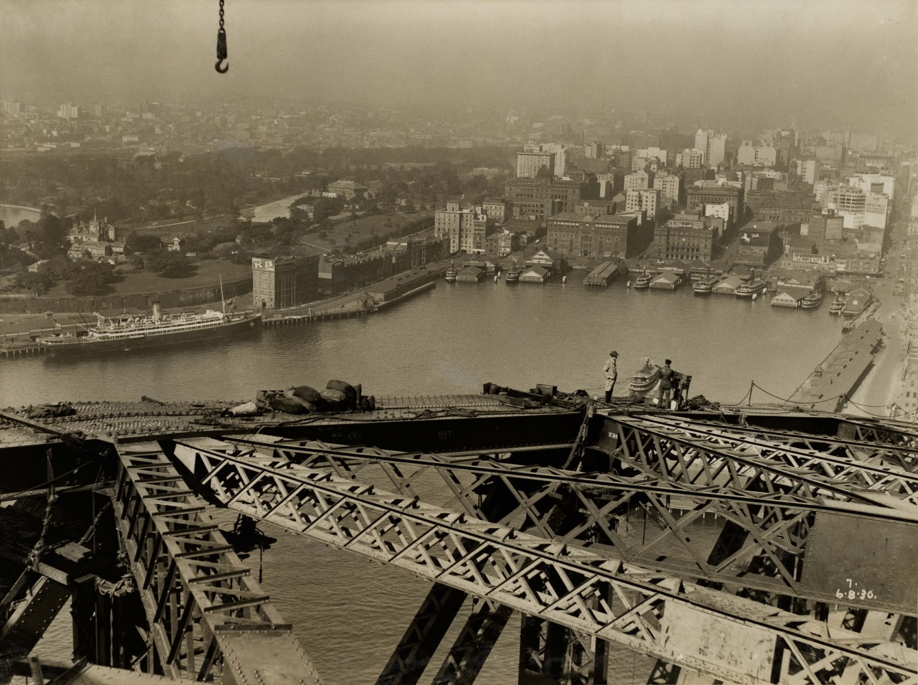 Circular Quay from Top of Arch